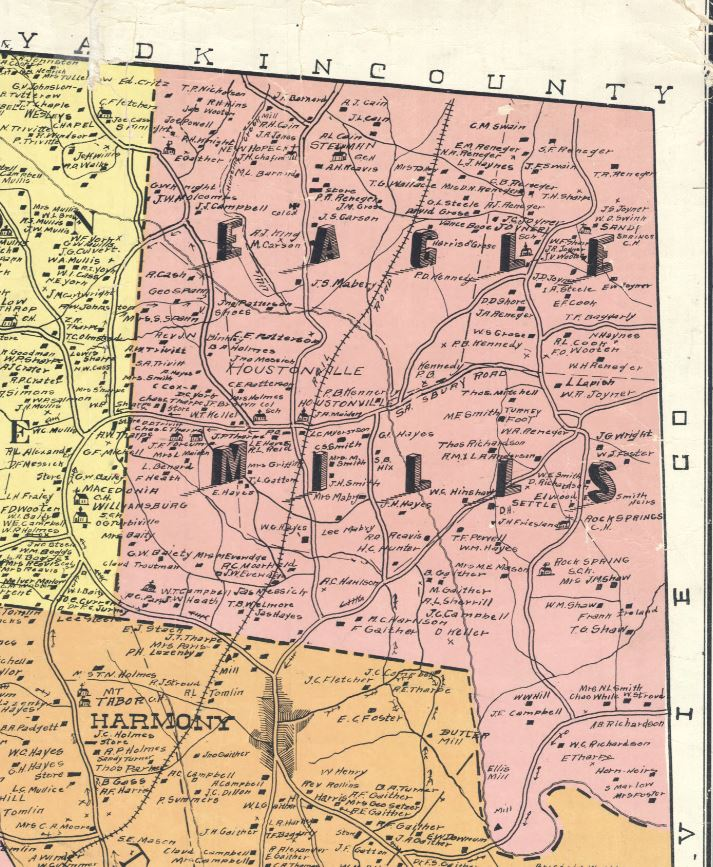 "Drawn by N.E. Kinney C.E. Lexington N.C. 1917. George F. Cram Company, Chicago." Abstract Printed in color, mounted on linen. Townships designated by color. Map shows school districts, mills, churches, retail stores, rural mail routes, African American churches, townships, landowners, schools, African American schools, dairies, tenants, and railroads including the Southern Railway and the "Proposed Statesville Air Line Railway." Townships shown include New Hope, Union Grove, Eagle Mills, Sharpsburg, Olin, Turnersburg, Concord, Bethany, Cool Springs, Shiloh, Statesville, Chambersburg, Fallstown, Barringers, Davidson, and Coddle Creek.